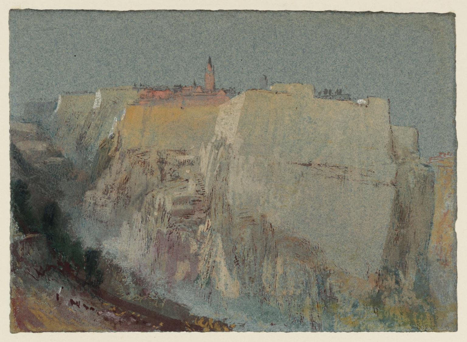 while in Luxembourg City